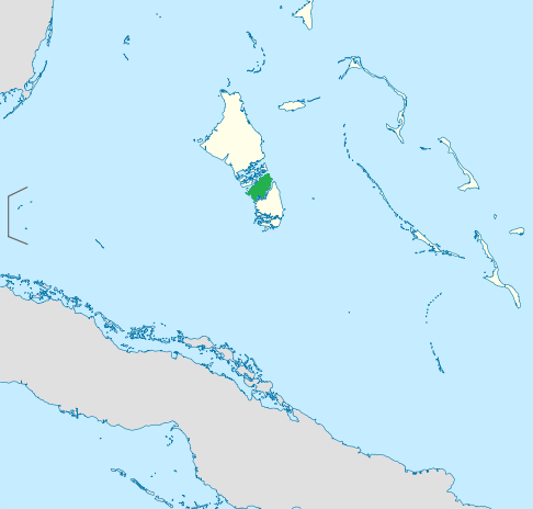 Location map of the Bahamas Equirectangular projection, N/S stretching 105 %. Geographic limits of the map: * N: 27.5° N * S: 20.7° N * W: 80.7° W * E: 70.8° W